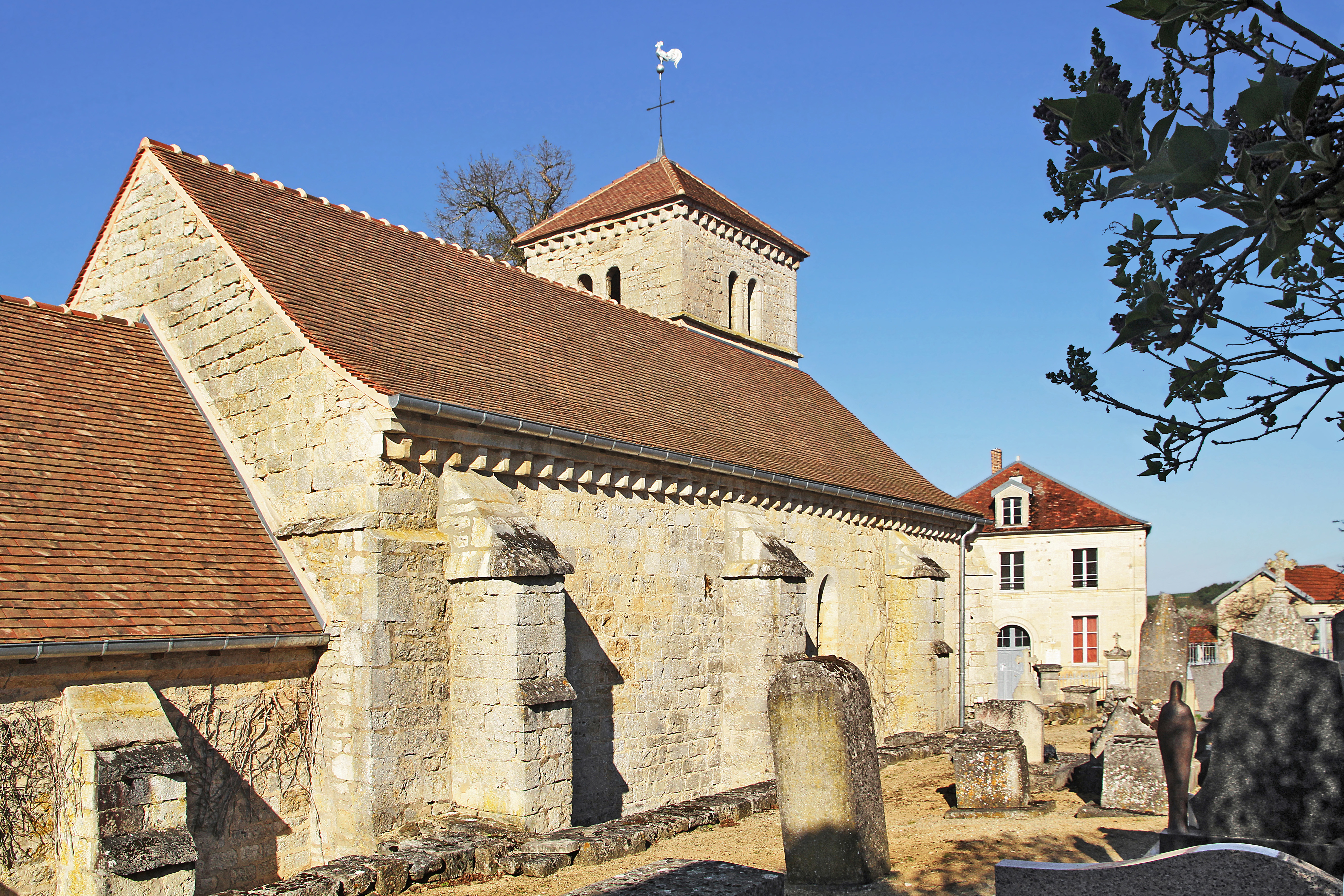 Church of Saint Vinard and townhall in Menesble